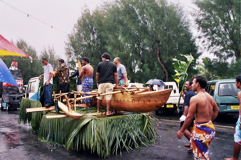 Photo taken by my wife, Wendy Macfarlane, July 2006 The float parade at the Maeva Nui celebration in July 2006.